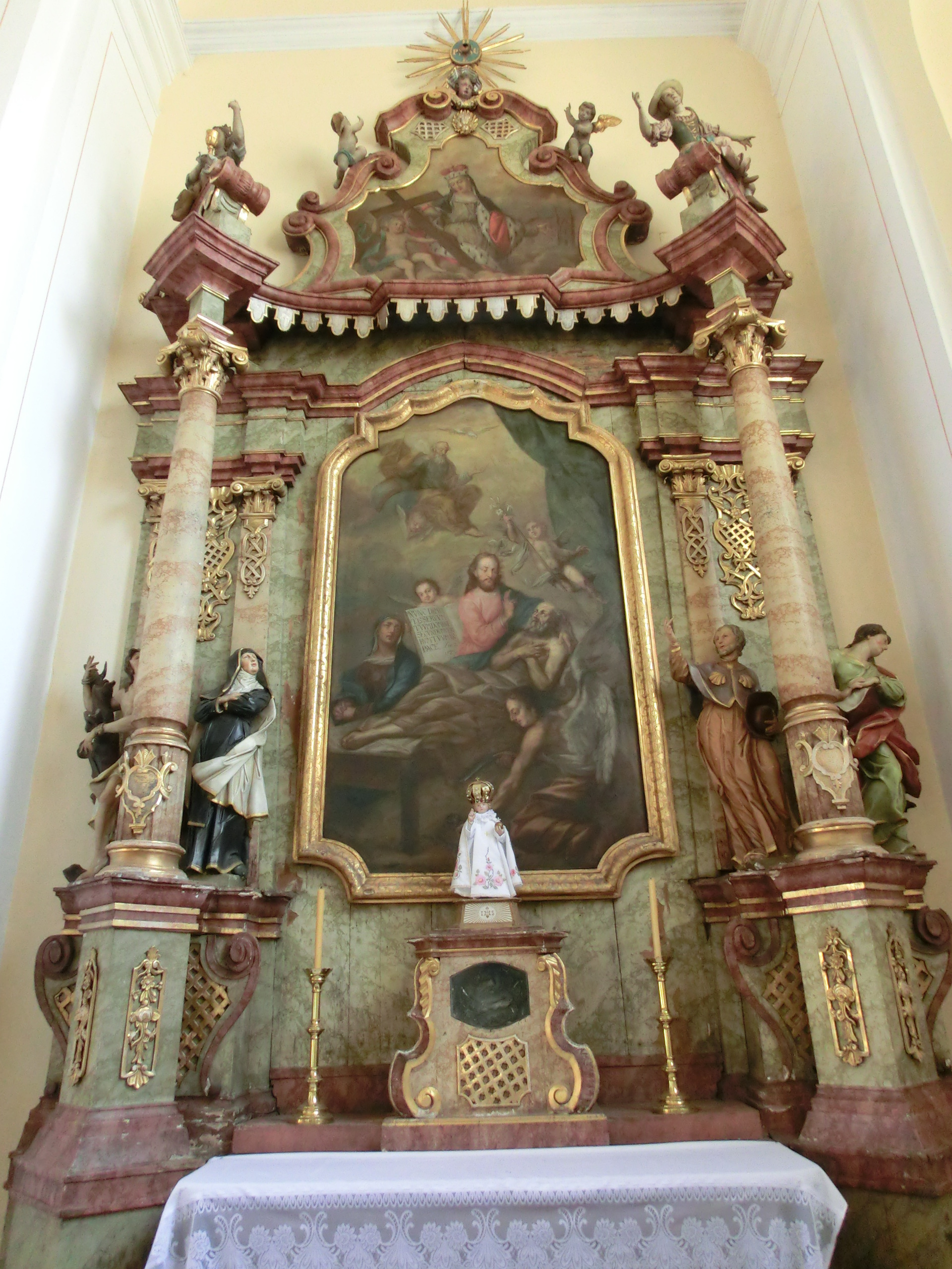 Altar of St. Joseph in Assumption Church Jeseník